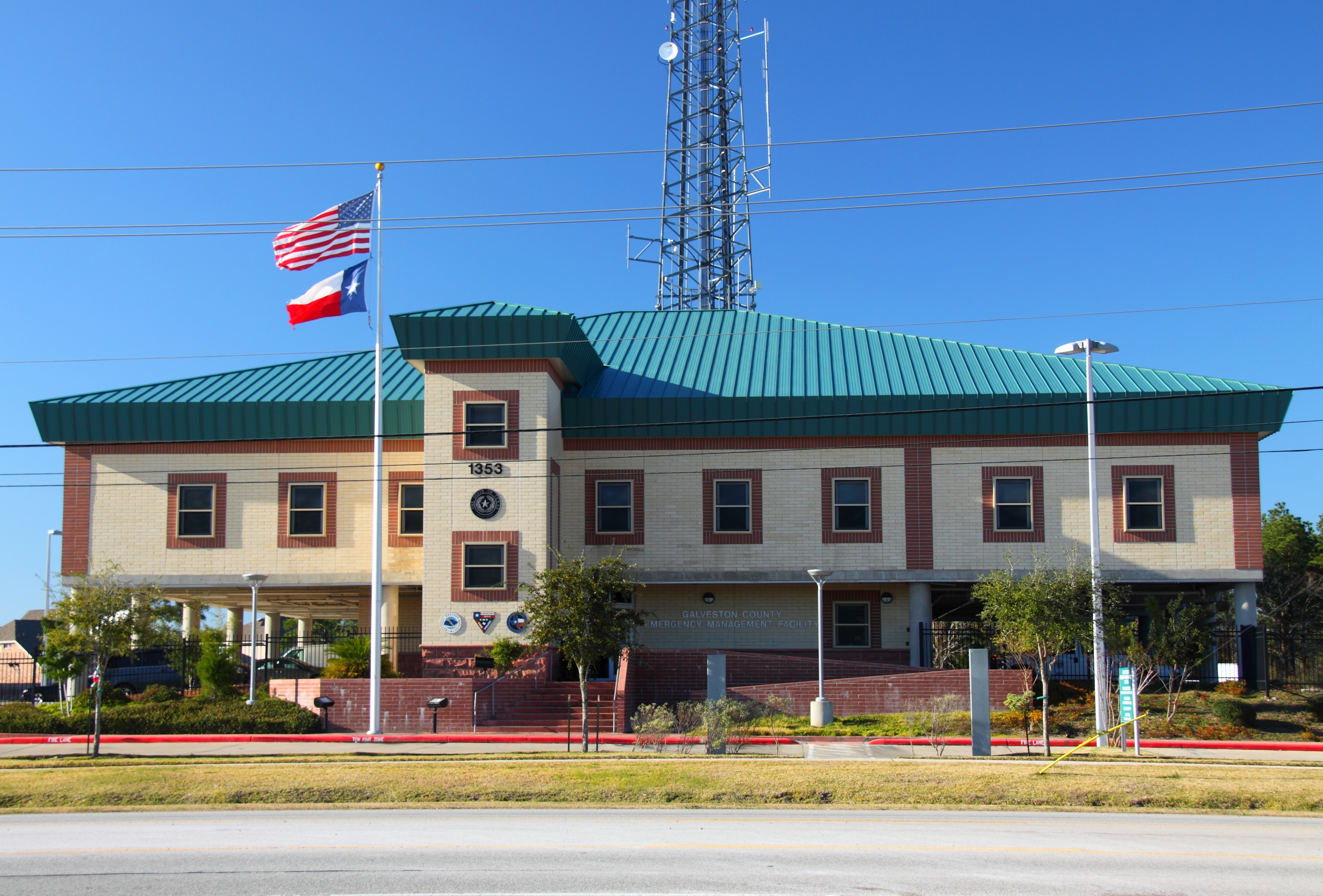 The Galveston County Office of Emergency Management and the Houston-Galveston National Weather Service Building in League City, Texas - Specially constructed to withstand a Category 5 hurricane's wind and storm surge, this building jointly funded and built by Galveston County and the National Weather Service to house the Emergency Management Operations for Galveston County as well as the Houston-Galveston National Weather Service Forecast Office. - For relevant source material, see associated discussion page